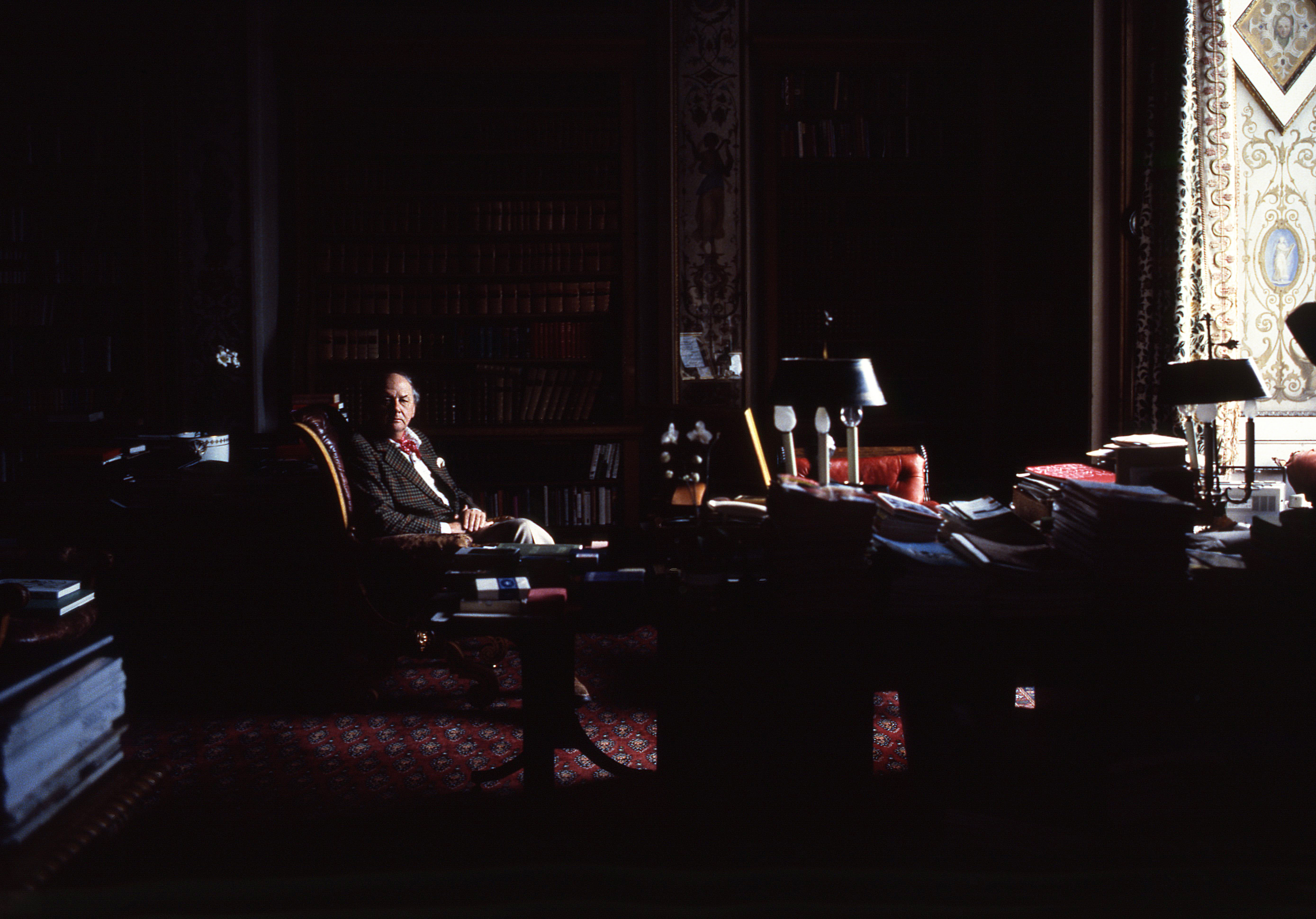 Andrew Cavendish the 11th Duke of Devonshire in his study at Chatsworth